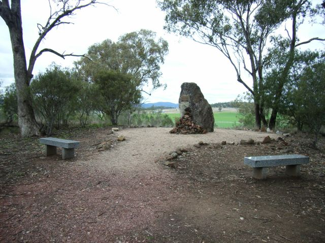 Myall Creek Massacre and Memorial Site: At the end of the walkway is the memorial set on a rise over looking the site of the massacre